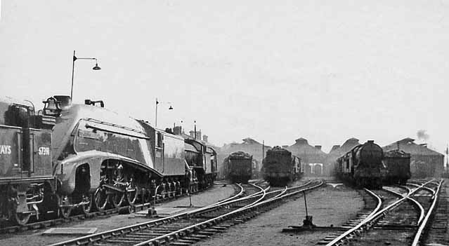 Doncaster Locomotive Depot. View SE in the yard at the north end of the Shed, which at that time (1949) had 12 through roads. Therefore this very important Divisional Main Depot (coded 36A by BR) was able to house a substantial proportion of its allocation of 182 under cover - in spite of appearances, when it was a Sunday. The Depot provided motive power for much of the passenger and freight traffic on both the ex-Great Northern East Coast Main Line and the subsidiary main lines to Leeds and to Hull, also for the ex-Great Central Sheffield - Doncaster - Cleethorpes axis and for the great marshalling yards at Doncaster. In mid-1950, the allocation included 5 4-6-2s, 21 4-6-0s, 24 2-6-2s, 6 2-6-0s, 40 2-8-0s, 43 0-6-0s and 43 0-6-0Ts. As the major ex-Great Northern Locomotive Works was also located at Doncaster, this Depot dealt as well with new and repaired locomotives from the Works: two can be seen on the left here, a C12 4-4-2T No. 67391 and A4 Pacific 60010 'Dominion of Canada' with its bell. The Depot closed to steam in 5/66 but has continued as a Diesel Depot.